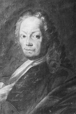 Martino Altomonte (1657-1754)